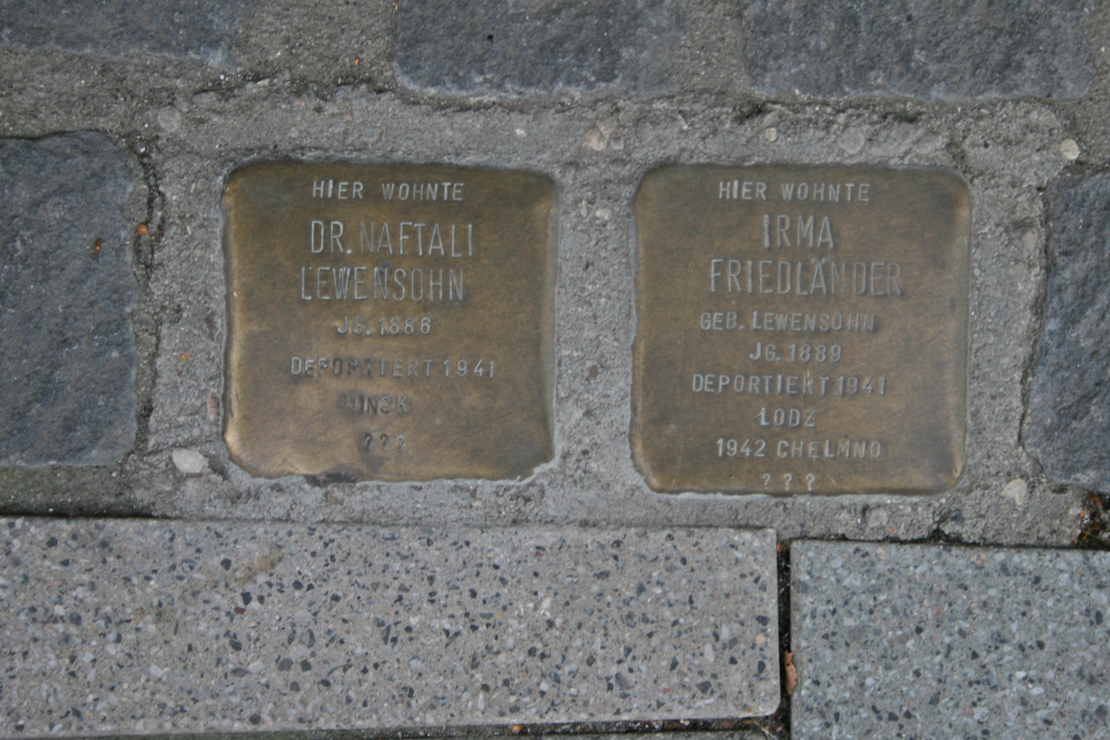 Stolperstein for Irma Friedländer and Naftali (Theodor) Lewensohn, Sachsentor 38 in Hamburg-Bergedorf